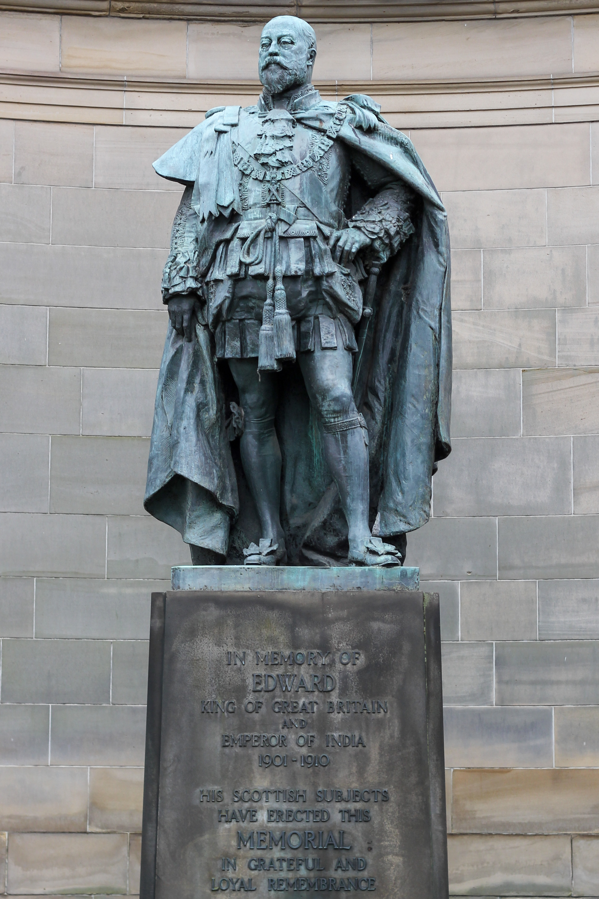 King Edward VII statue, unveiled by George V in 1922, outside Holyrood Palace in Edinburgh, Scotland.